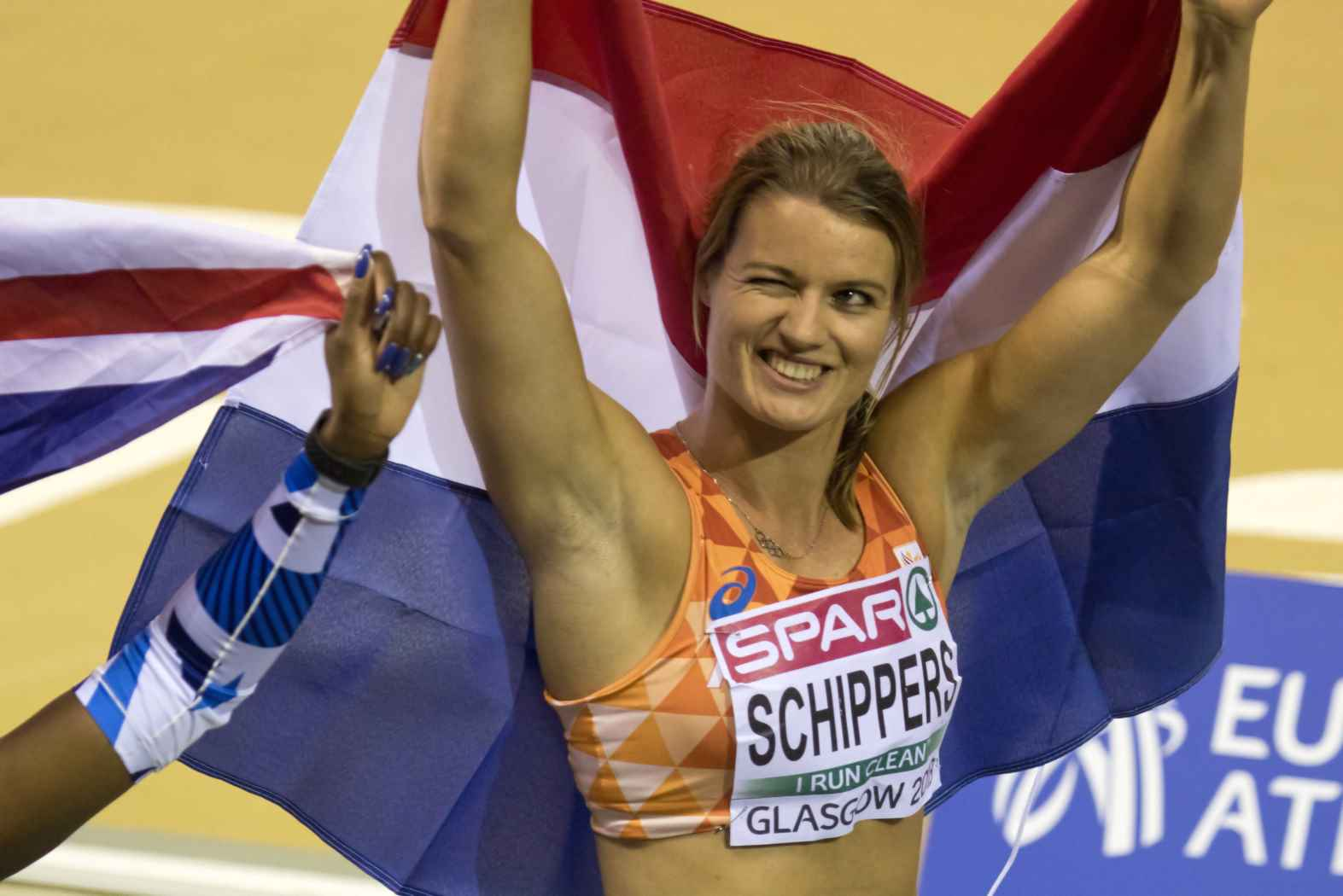 Dafne Schippers, Glasgow 2019